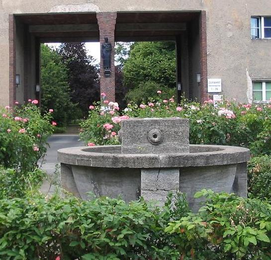 Fountain in the listed Bärensiedlung (german for „Bear residential development“) at the Oberlandstraße (street) in Berlin-Tempelhof, built in 1929/31.